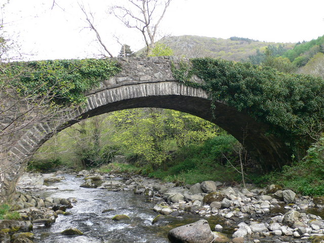 Bont Newydd over Afon Rhaeadr Mawr Bont Newydd is a stone arched bridge that spans the river at the confluence of the Afon Rhaeadr Fawr and the Afon Anafon in the Aber Valley